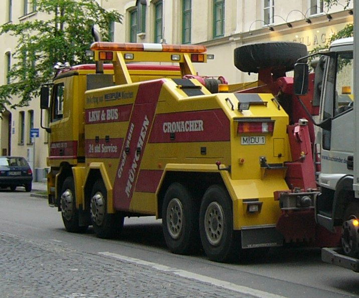 Heavy Tow truck of Martin Cronacher GmbH, Feldkirchen near München (Germany) .